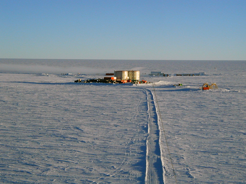 Concordia Station (Dome C) seen from the top of a 32-meter tower located about 1 km from the station. The summer station is visible behind the new (still under construction at that time) winter station. Taken just after midnight on 29 January 2005.